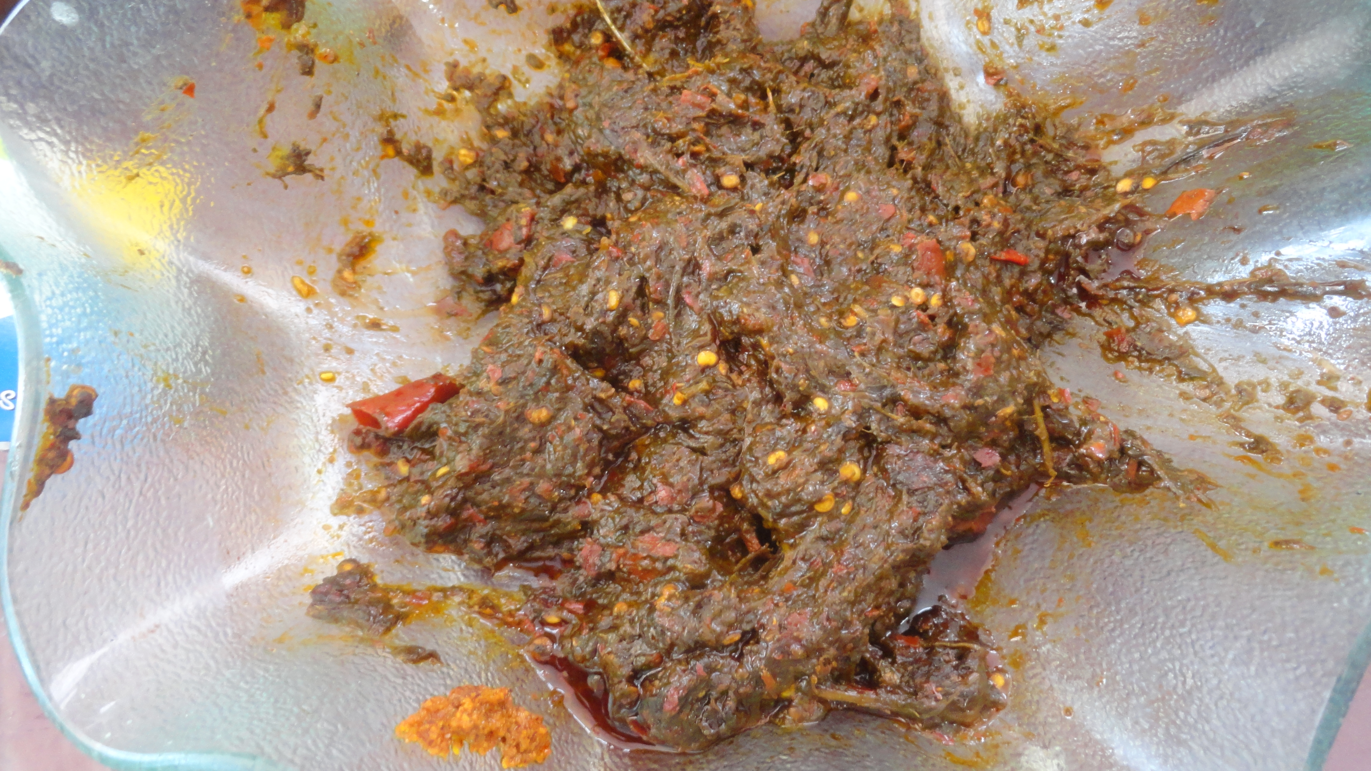 gomgura paccadi . very papular andhra side dish